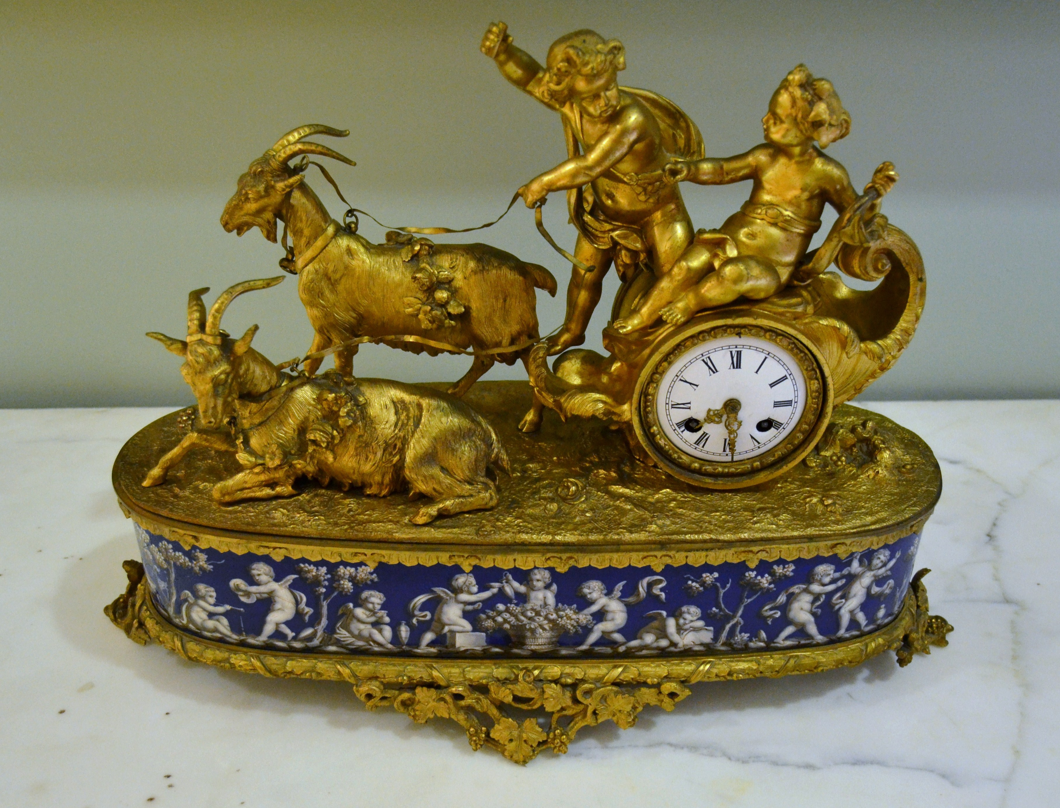 Clock in the museum of Fine Arts in Valencia. Napoleon III style, third quarter 19th century. Napoleon III style.